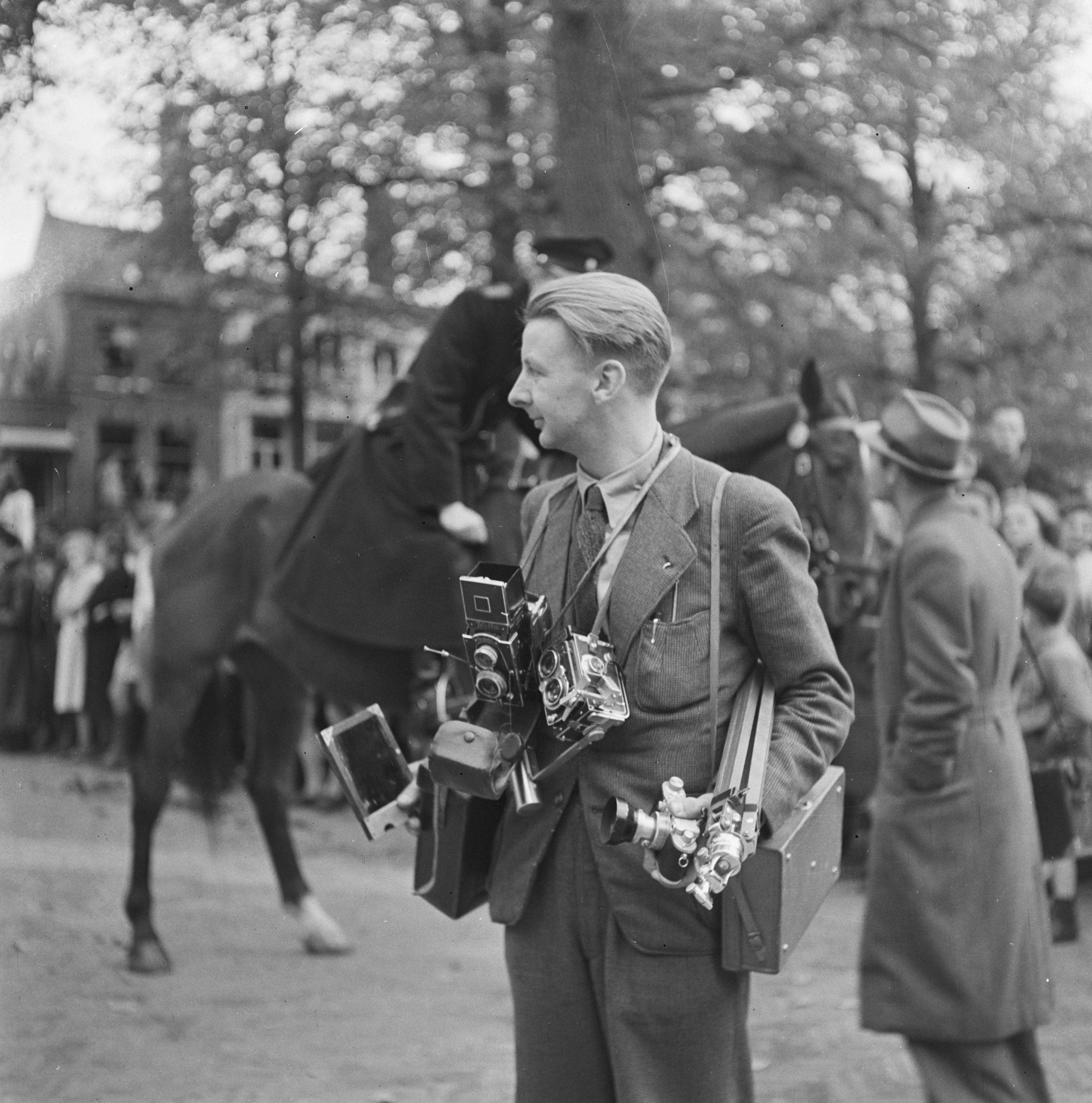 Photographer Charles Breyer during Eisenhower's visit to Palace Lange Voorhout, The Hague (the Netherlands), 6 October 1945